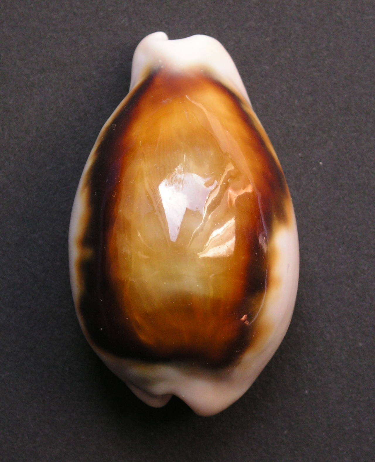 Cypraea spadicea Licence: self-made photo, May 2005